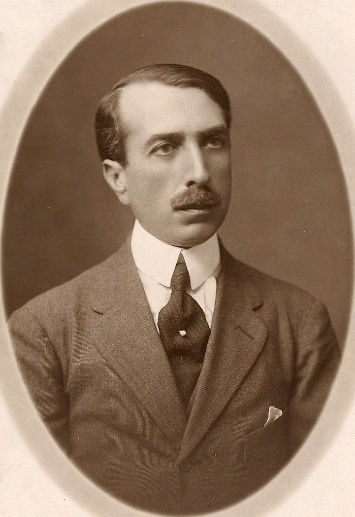 Governor Rafael Núñez